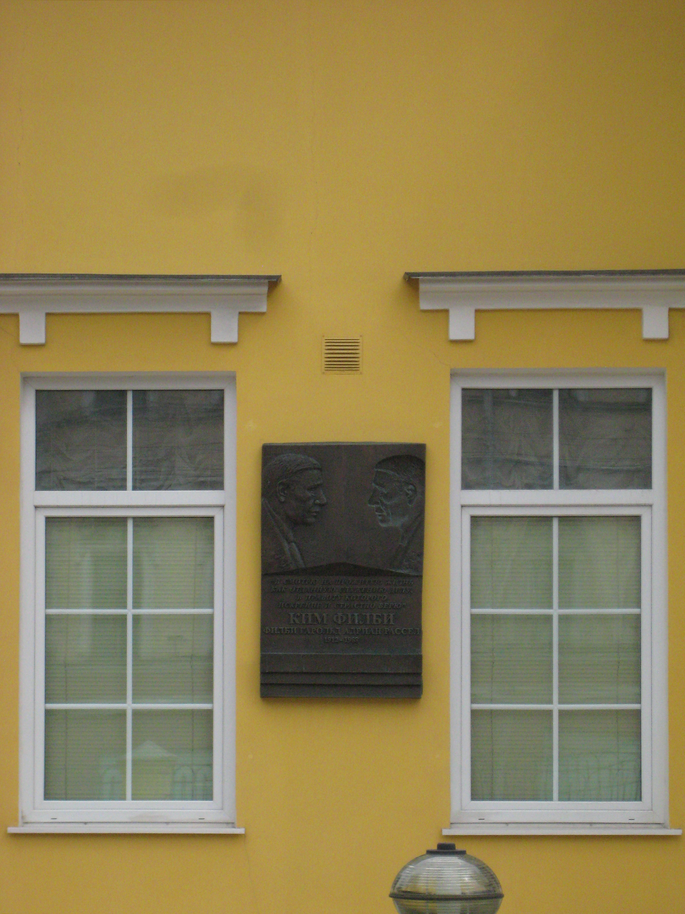 Plaque in honour of Kim Philby. Abrikosov's house, Moscow.